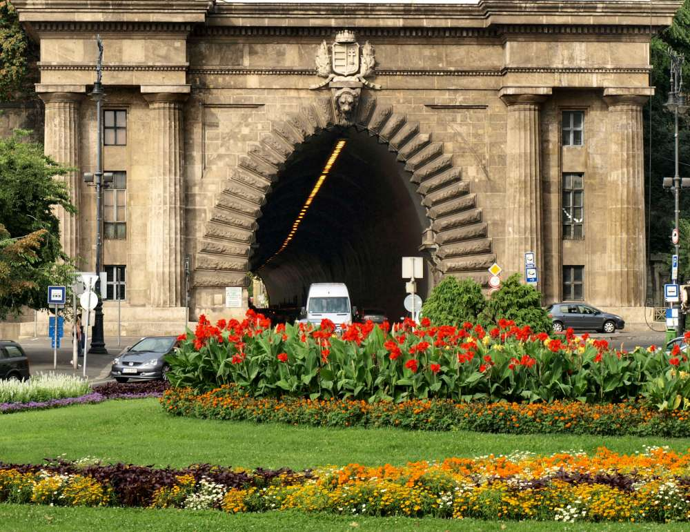 Tunnel, eastern entrance from Danube, Budapest, I. kerület, Adam Clark square